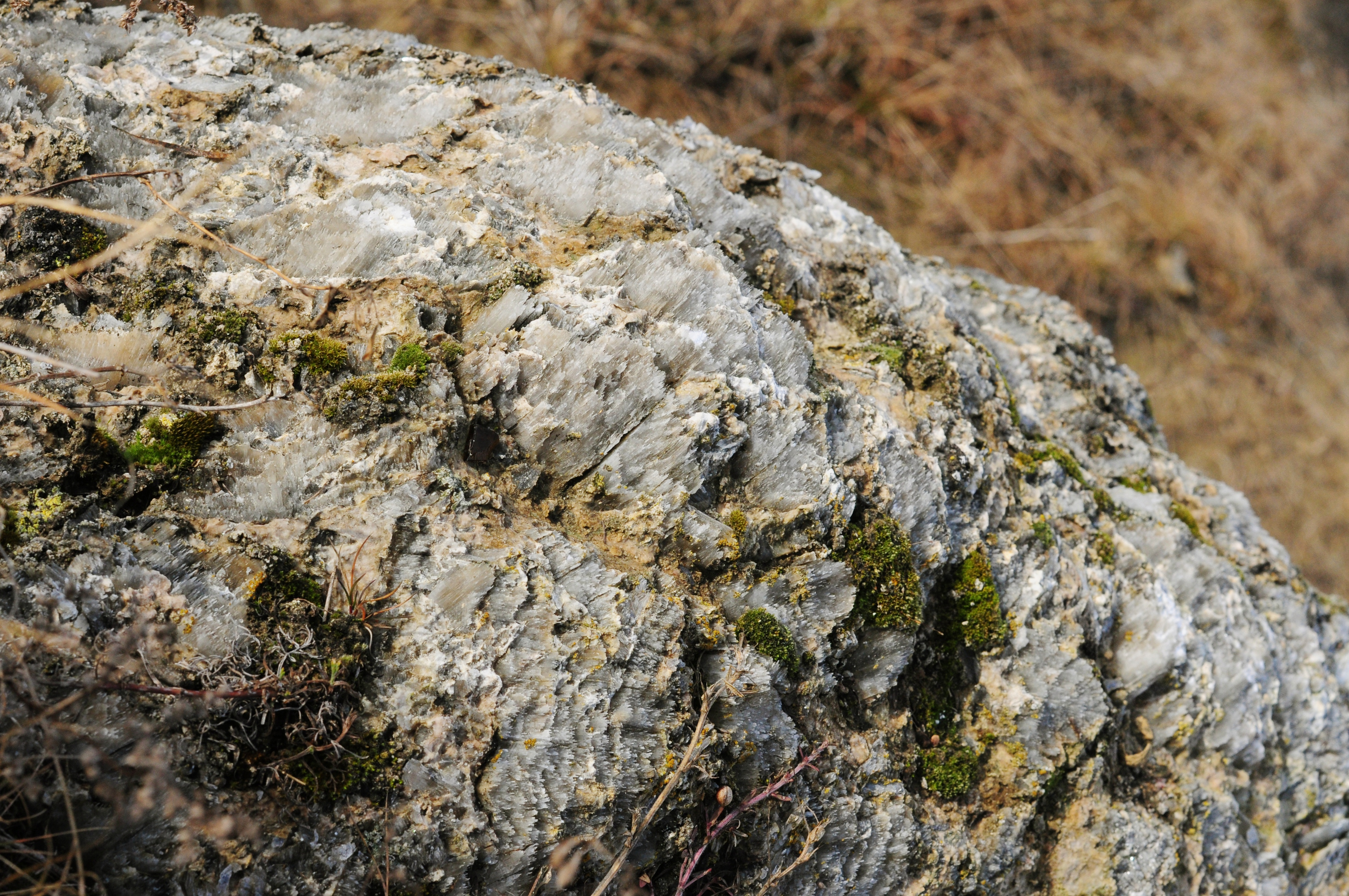 The closed gypsum quarry in Staszów, Poland.